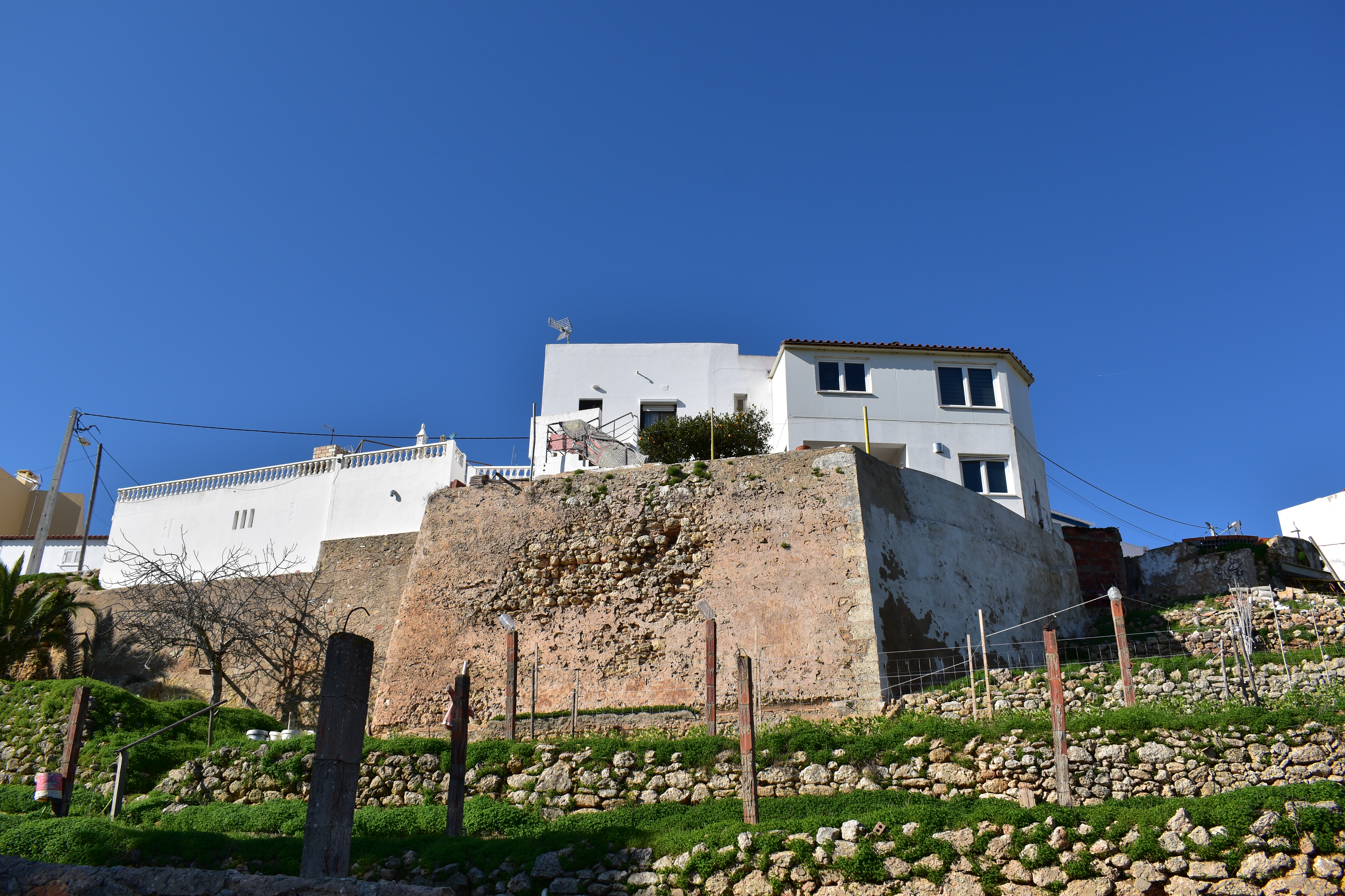 Former bulwark of the Alcantarilha castle, in the region of Algarve, in Southern Portugal.